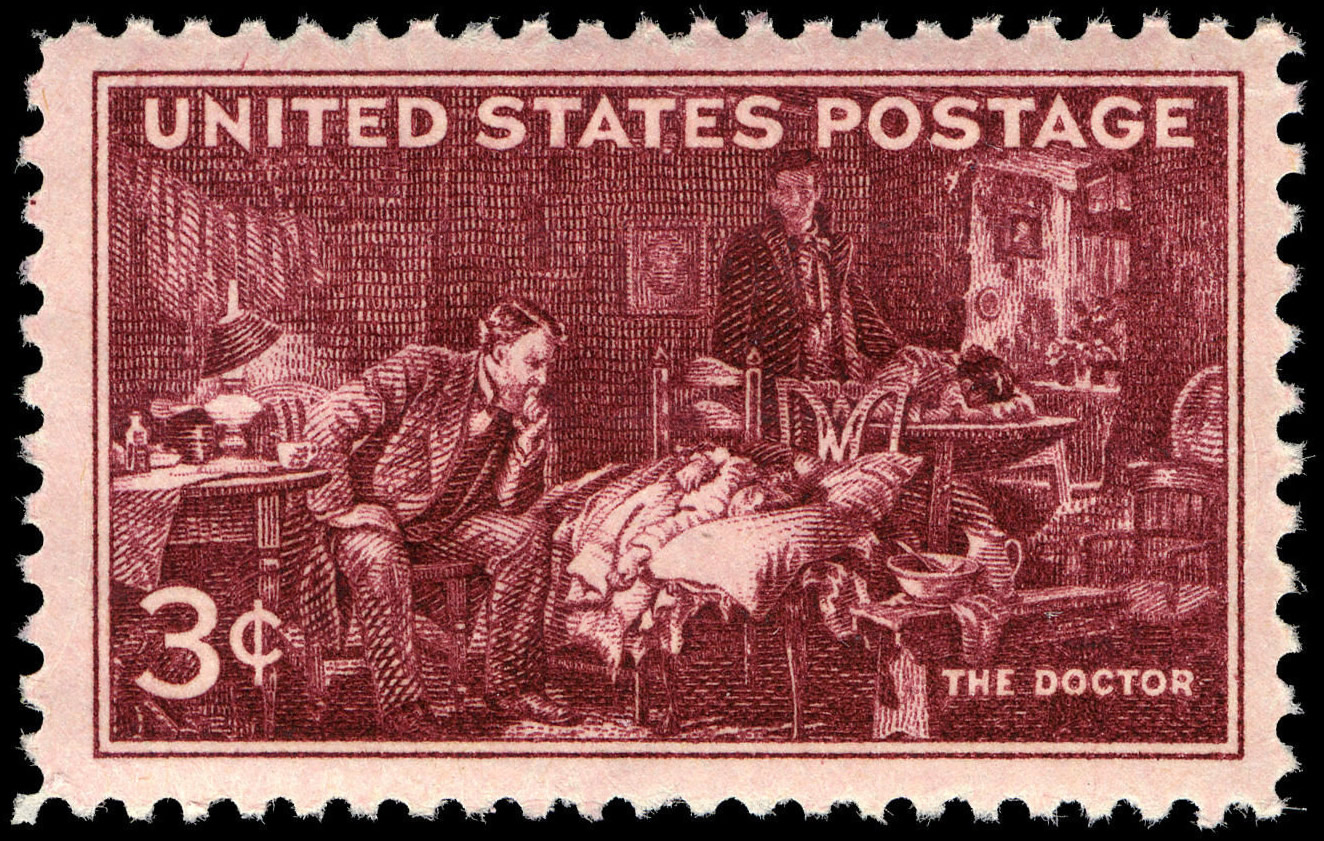 Doctors AMA Centennial 3-cent 1947 issue U.S. stamp, commemorating the 100th anniversary of the founding of the American Medical Association (AMA).